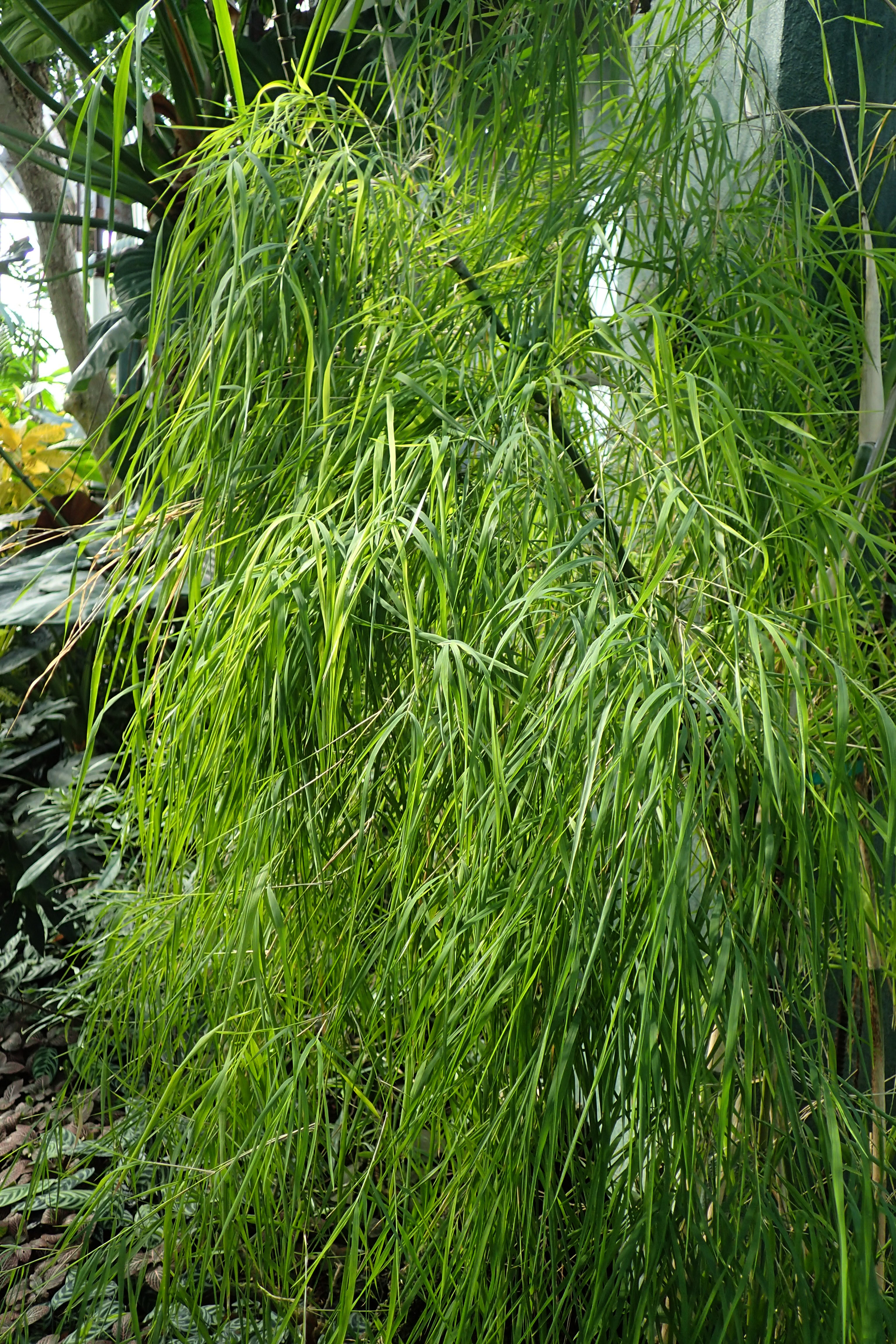 Otatea acuminata in Lincoln Park Conservatory